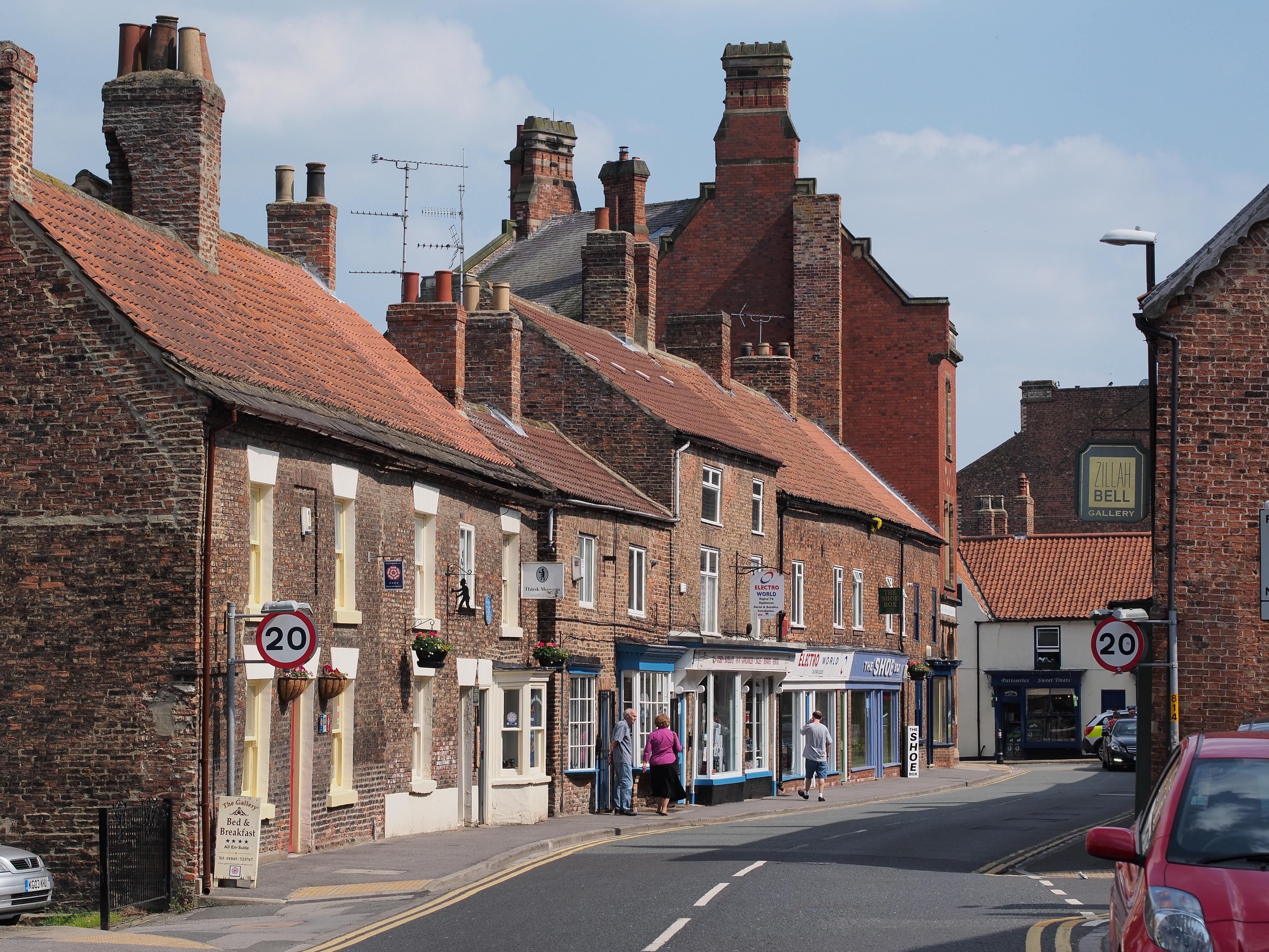 South end of Kirkgate, Thirsk (as seen from "The World of James Herriot")